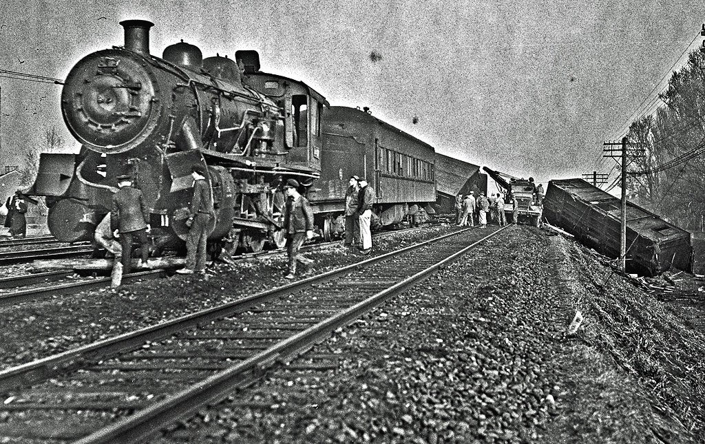 Korean Train Wreck - 1945. U.S. Army railroaders helped the Koreans take over their own railroads after the war ended. Japanese had held the management positions during the occupation. The wreck was near Seoul.